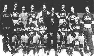 A picture of the 1922 Toronto St. Pats, winners of the 1922 Stanley Cup.